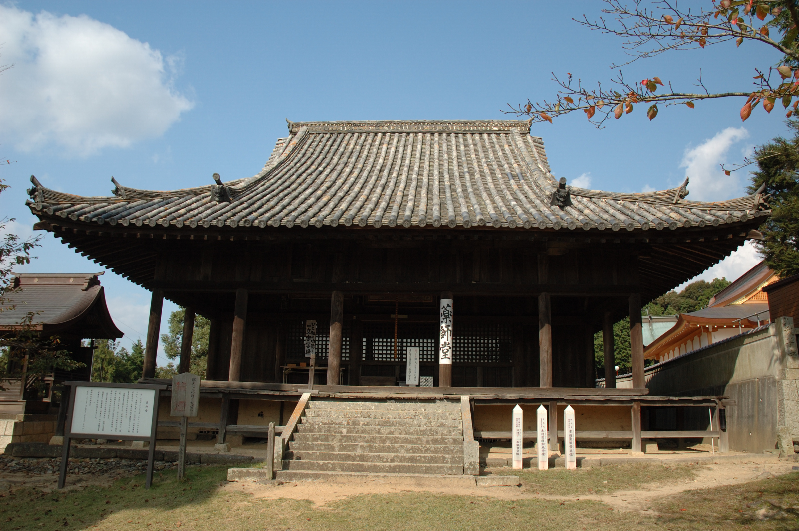 photo of Yokeiji Yakushido(Okayama prefectural important cultural property), three Buddhist images (two Japan's national important cultural properties and Okayama prefectural important cultural property) in here